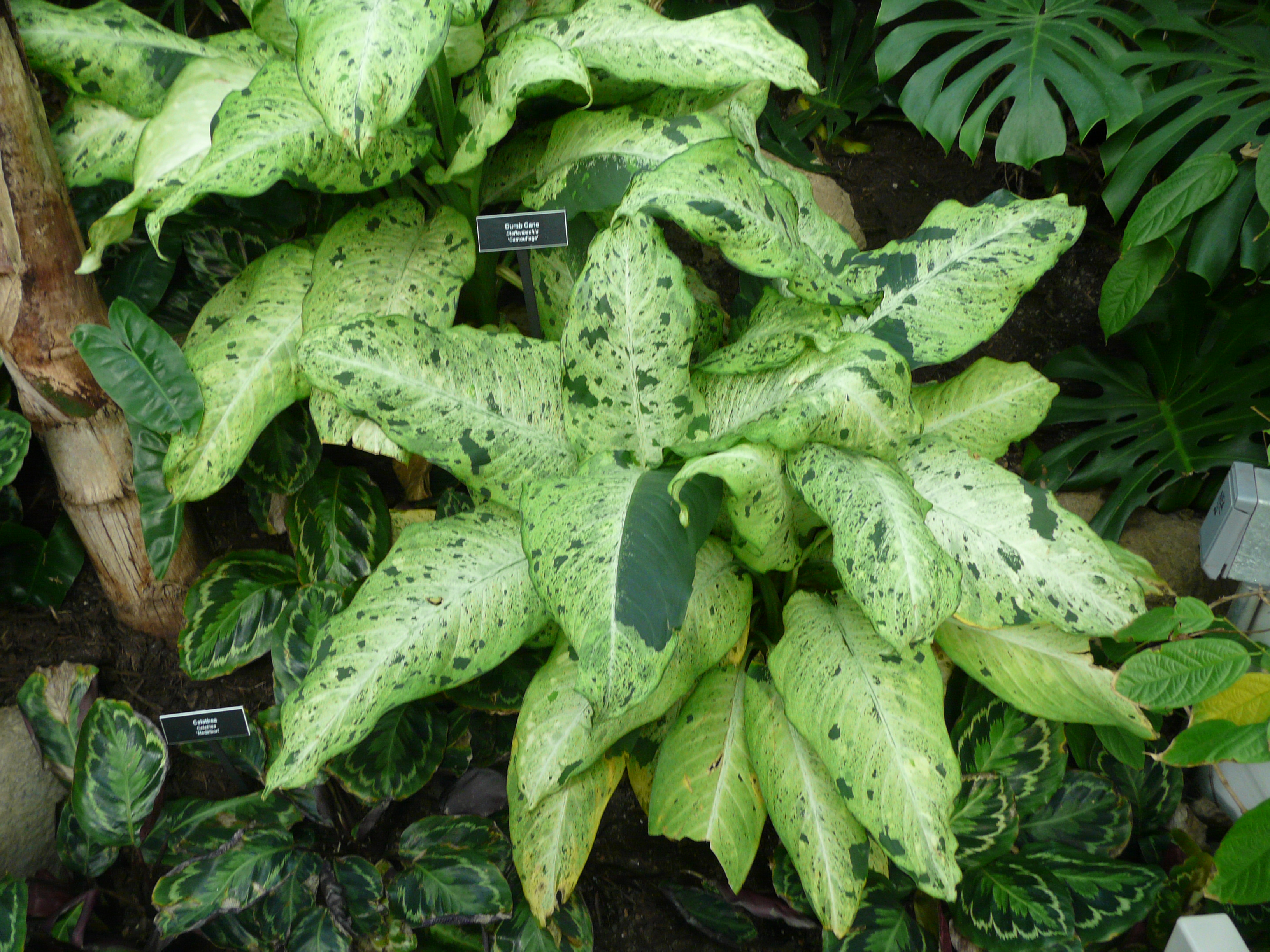 Phipps Conservatory